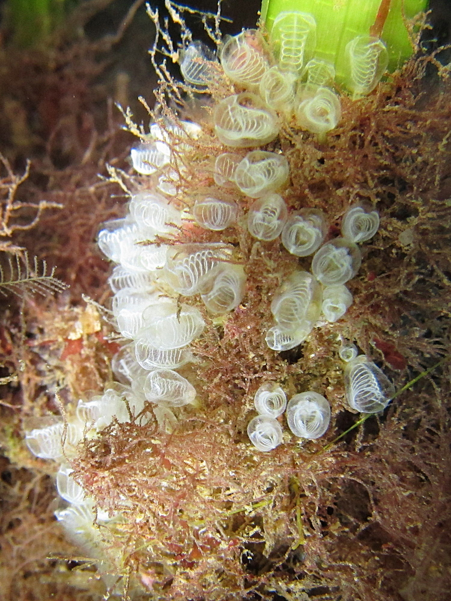 Pycnoclavella nana at the foot of a Posidonia oceanica. Mediterranean sea, Giens peninsula, -37m, December 2012.